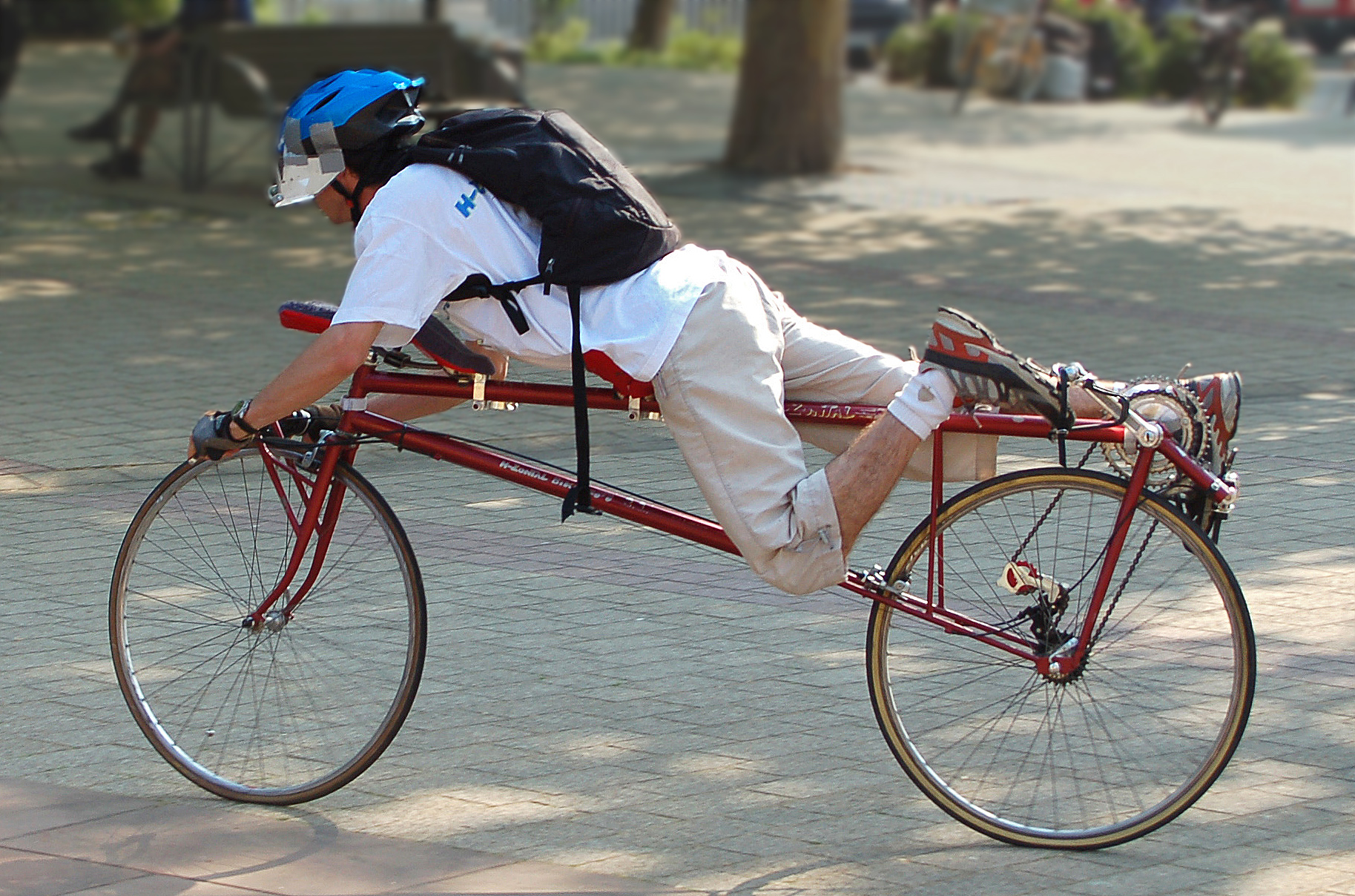 Prone bike